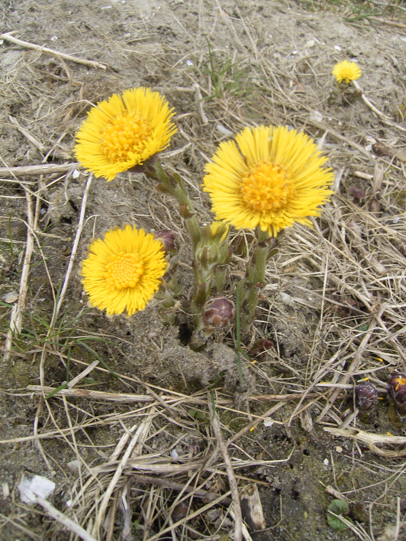 This photo shows a flowering Tussilago farfara plant in Rijswijk.